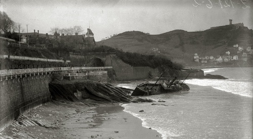 Mamelena shipwreck.